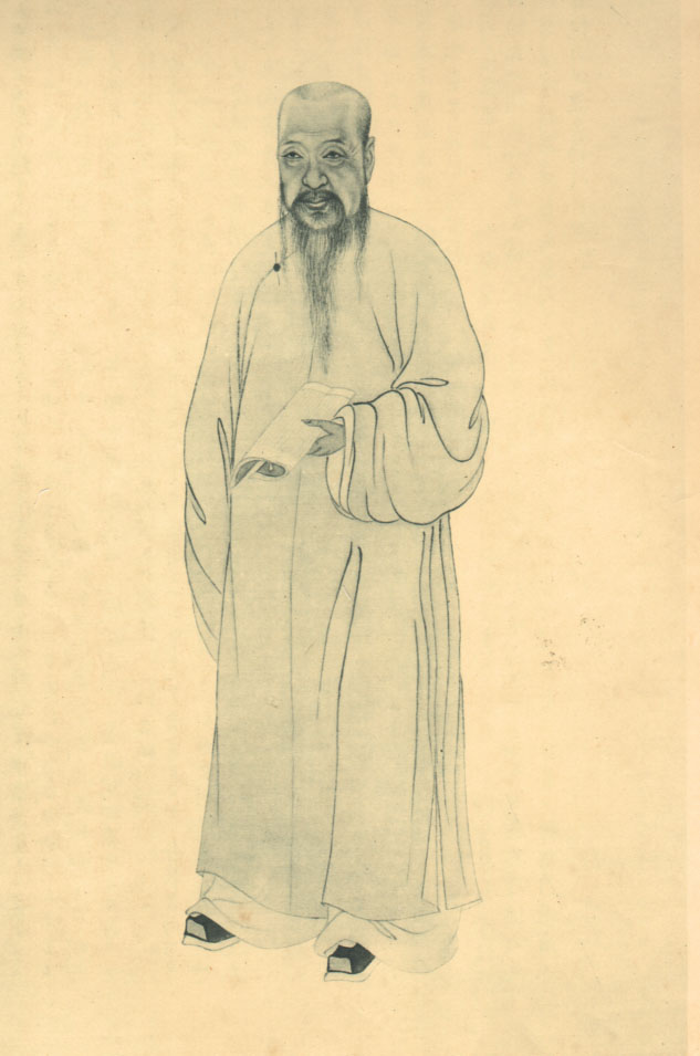 Wang Shizhen